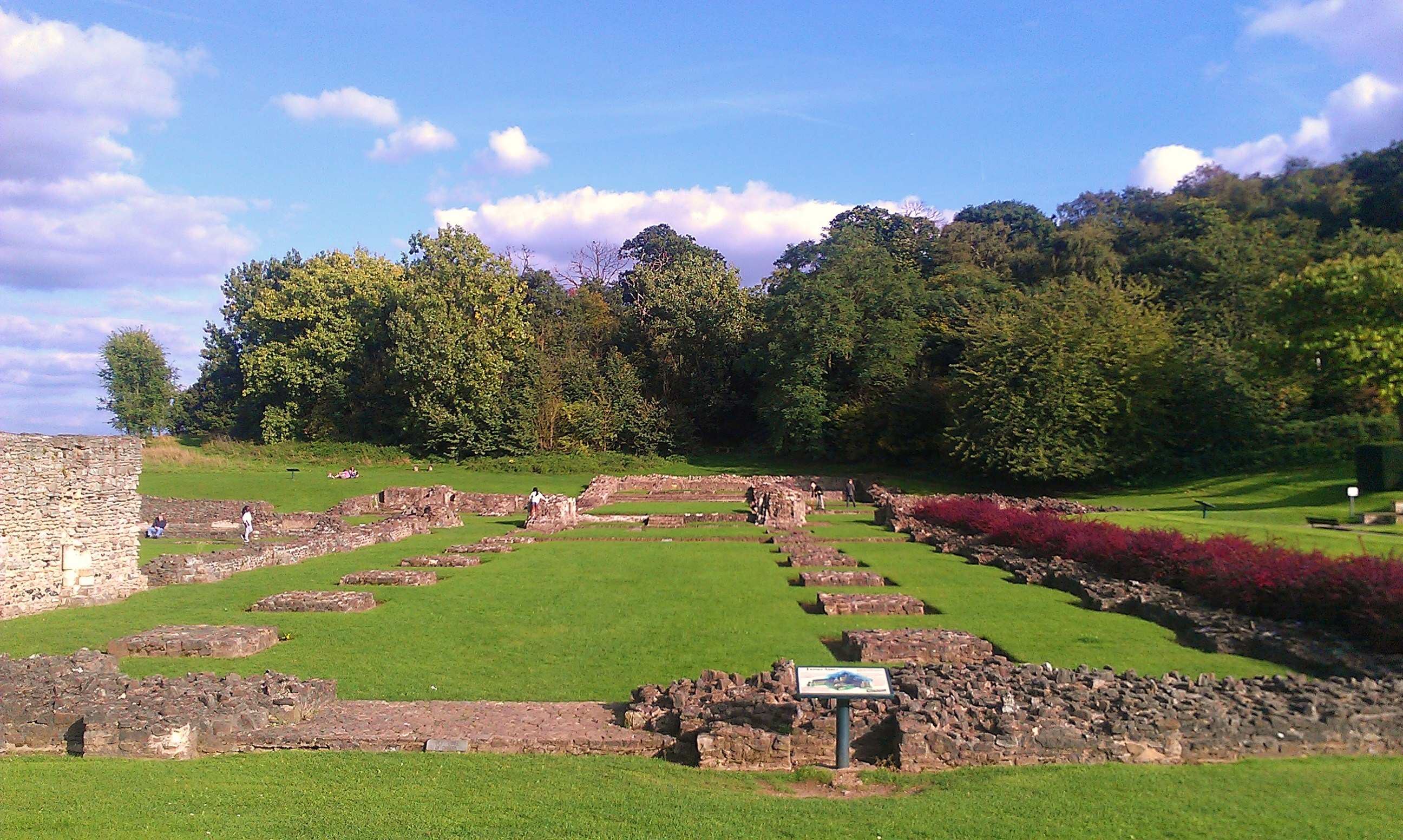 The remains of Lesnes Abbey in southeast London. Depicted here is the nave from its western end, facing east. Lesnes Abbey Wood is visible in the background.